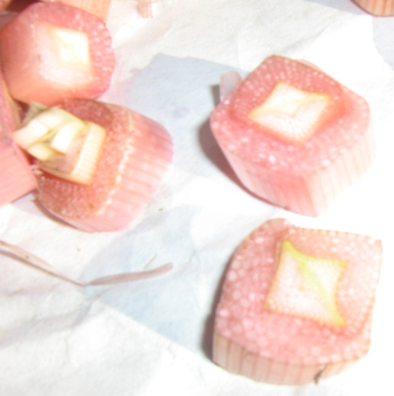 Cross section of Sparganium erectum leaves.